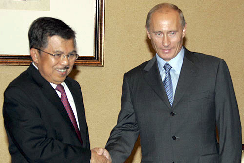 JAKARTA. With the Vice President of Indonesia, Yusuf Kalla.